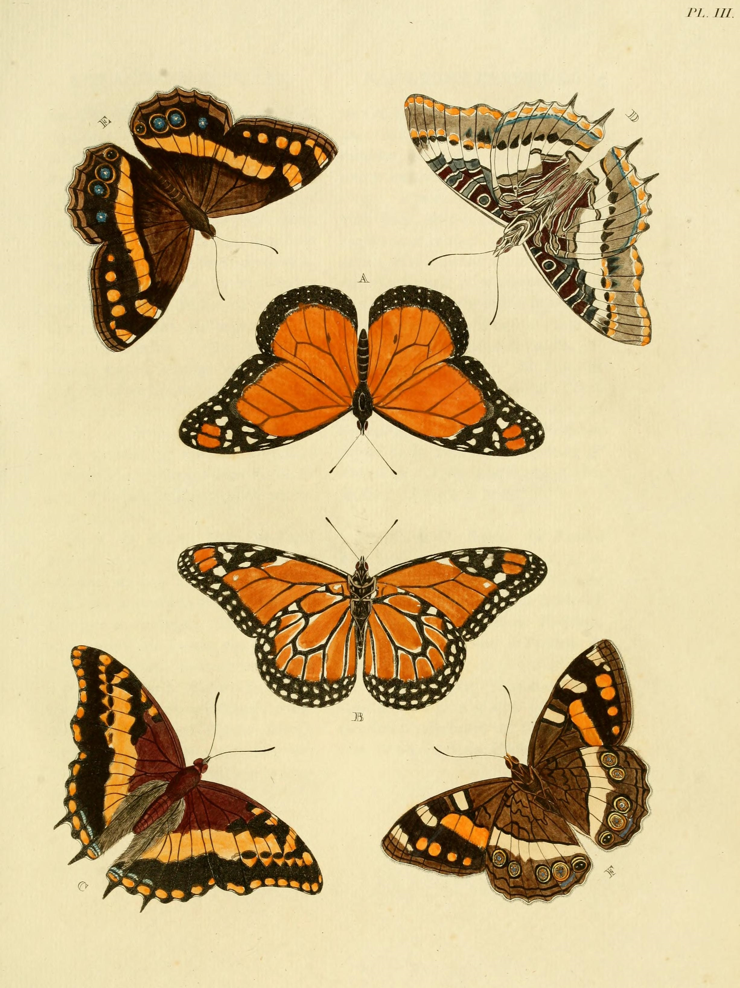 Plate III A, B: "(Papilio) Erippus" ( = Danaus erippus, see Tree of Life) C, D: "(Papilio) Pelias" ( = Charaxes pelias, see Tree of Life and photos at Barcode of Life) E, F: "(Papilio) Tulbaghia - (Papilio) Tulbagia" ( = Aeropetes tulbaghia, see Tree of Life)